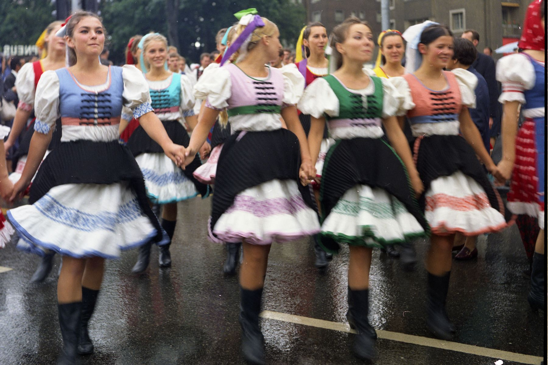 Young women walk hand in hand during 1968 Fetes de Geneve parade. Other information Photo by George Garrigues